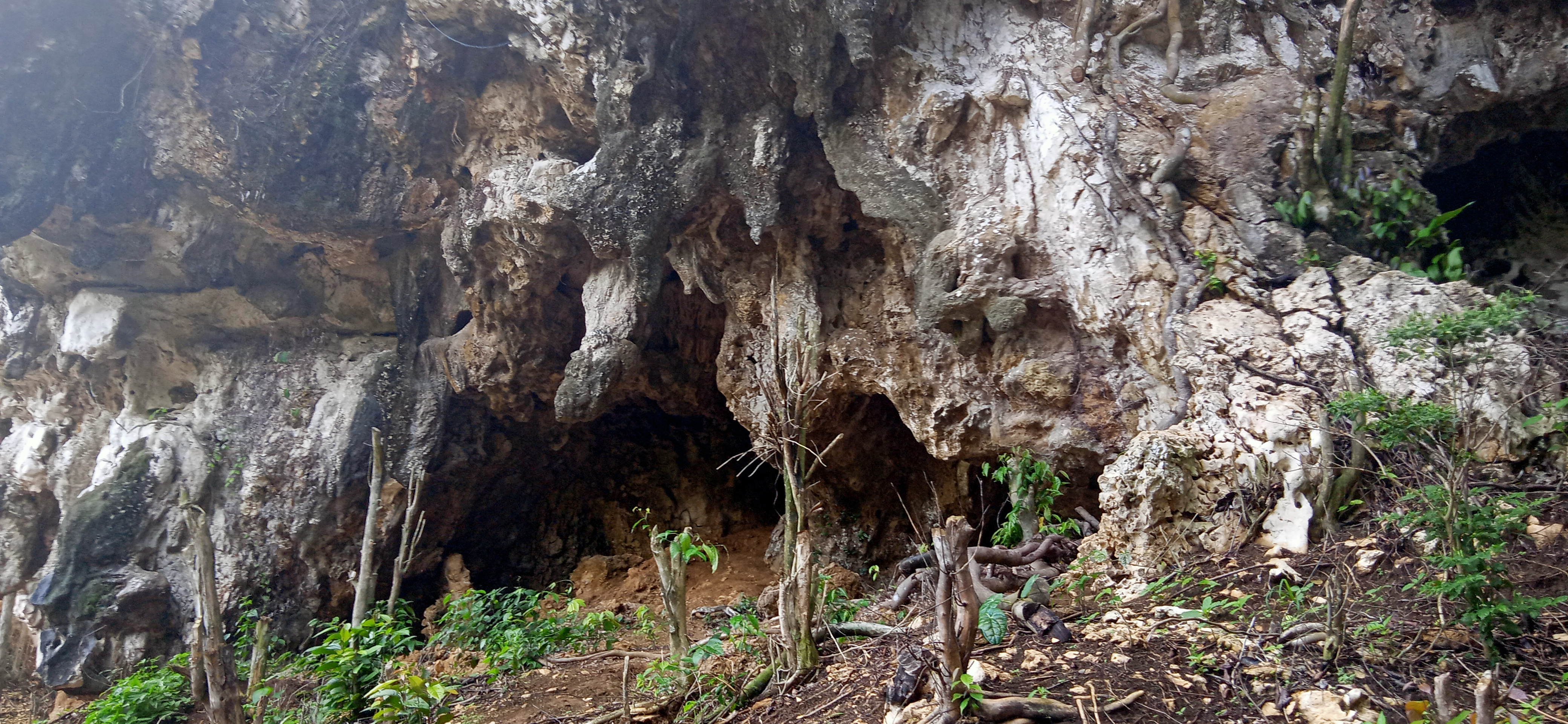 Nateh is one most area within cave complex and beauty panoramic with nature